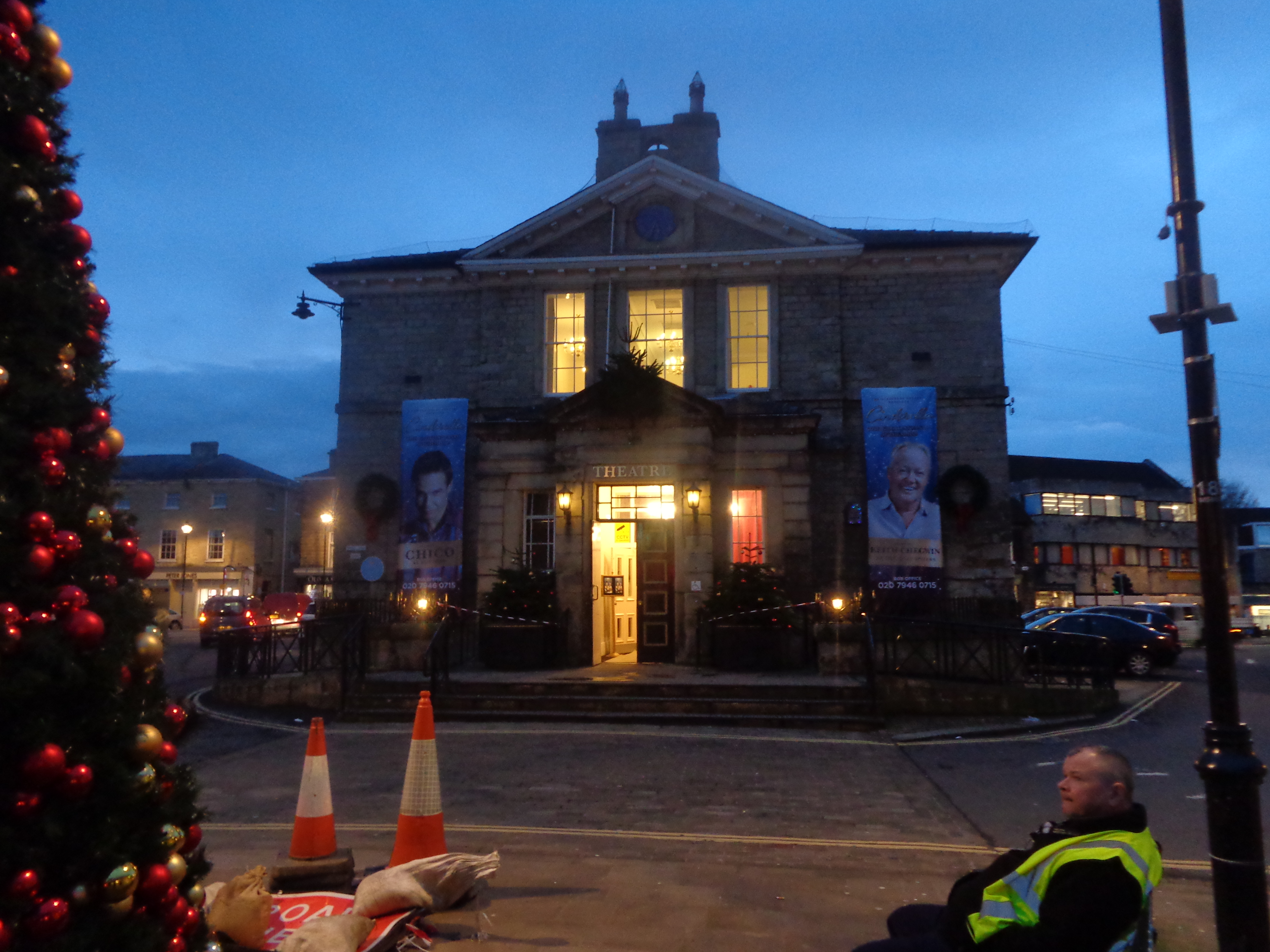 Wetherby Town Hall during the filming of Get Santa. Filming took place in the West Yorkshire Market Town of Wetherby between Monday the 17th and Wednesday the 19th of February 2014. For the first two days the Town Hall was done in the guise of a Theatre. On the Wednesday filming took place inside the Black Bull public house. Owing to the Christmas nature of the film, this corner of the Market Place has festive decorations. Taken on the evening of Tuesday the 18th of February 2014.